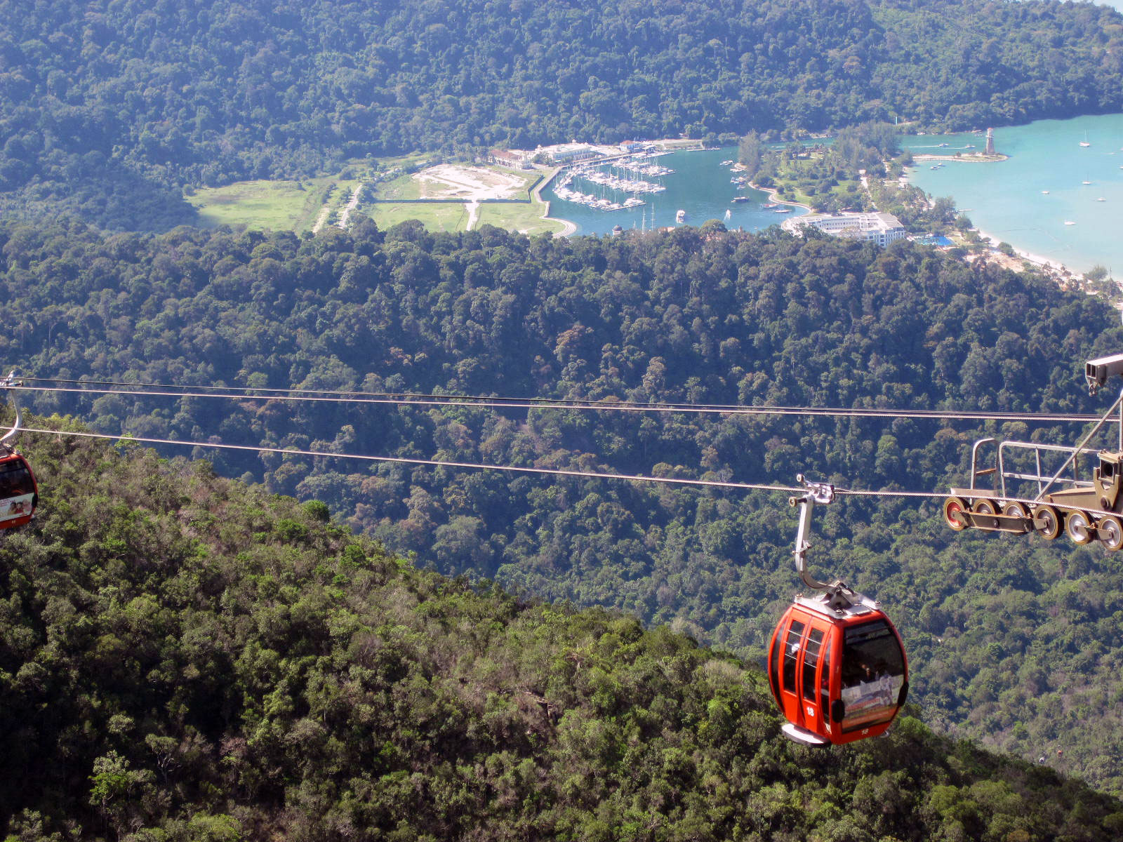 mount cable car